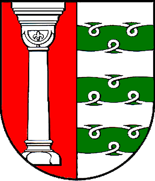 Coat of Arms of Wahlsburg